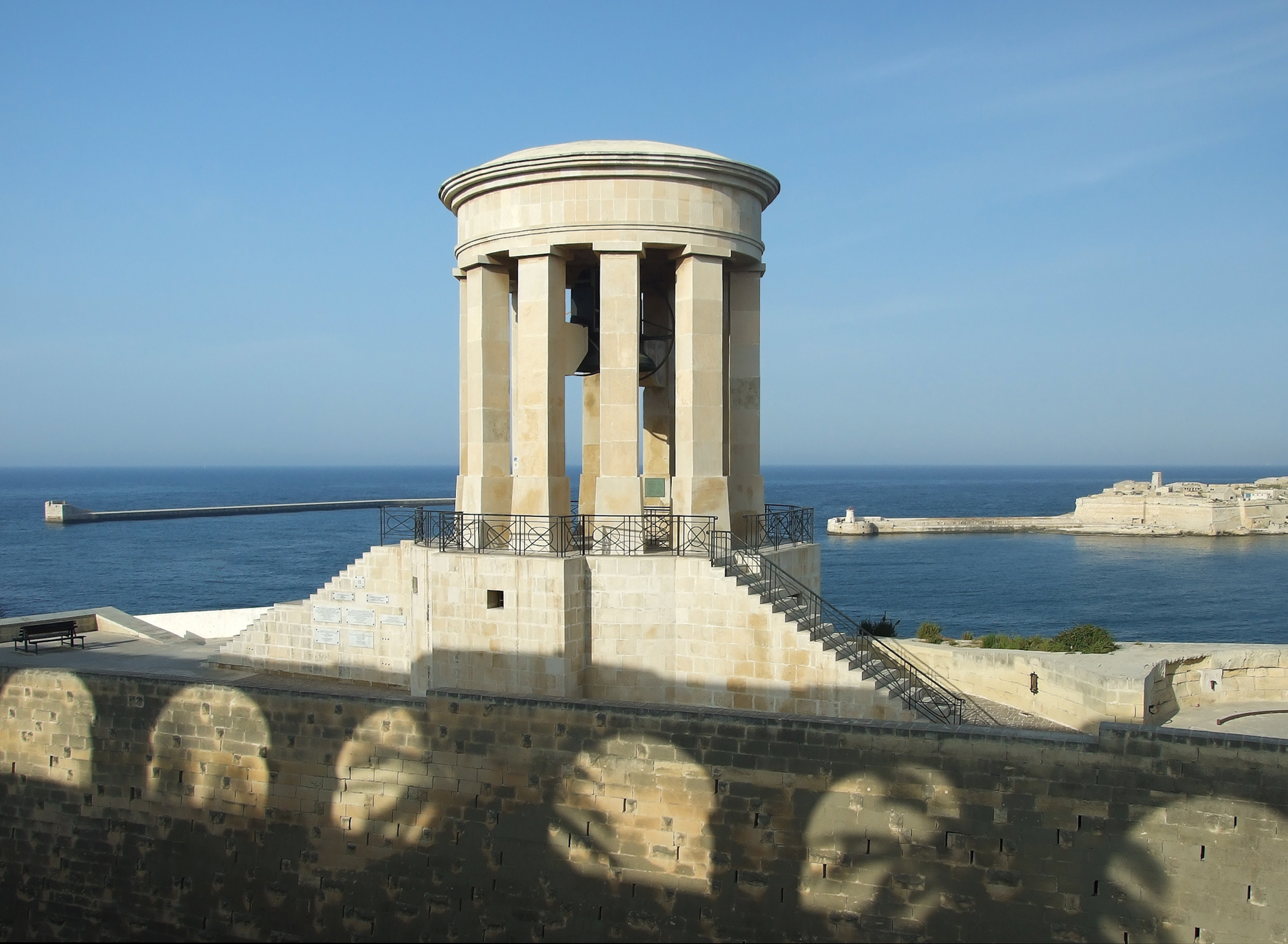 The Siege Bell War Memorial in the city of Valletta, Malta. Designed by Michael Sandle and erected in 1992, it commemorates the victory of the Allied forces during the Second Siege of Malta from 1940-1943.